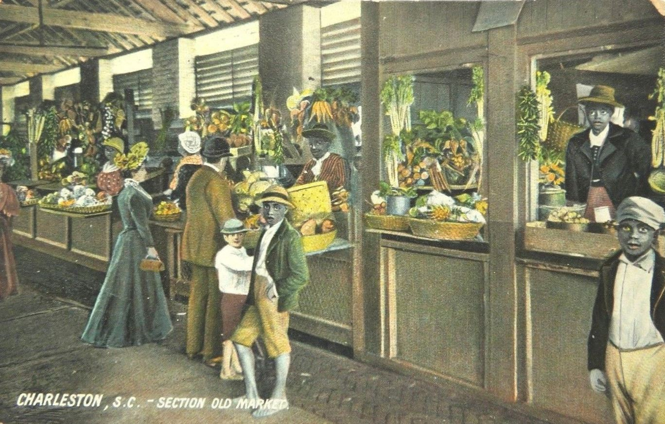 The City Market in Charleston, South Carolina was shown on a postcard dated 1910.